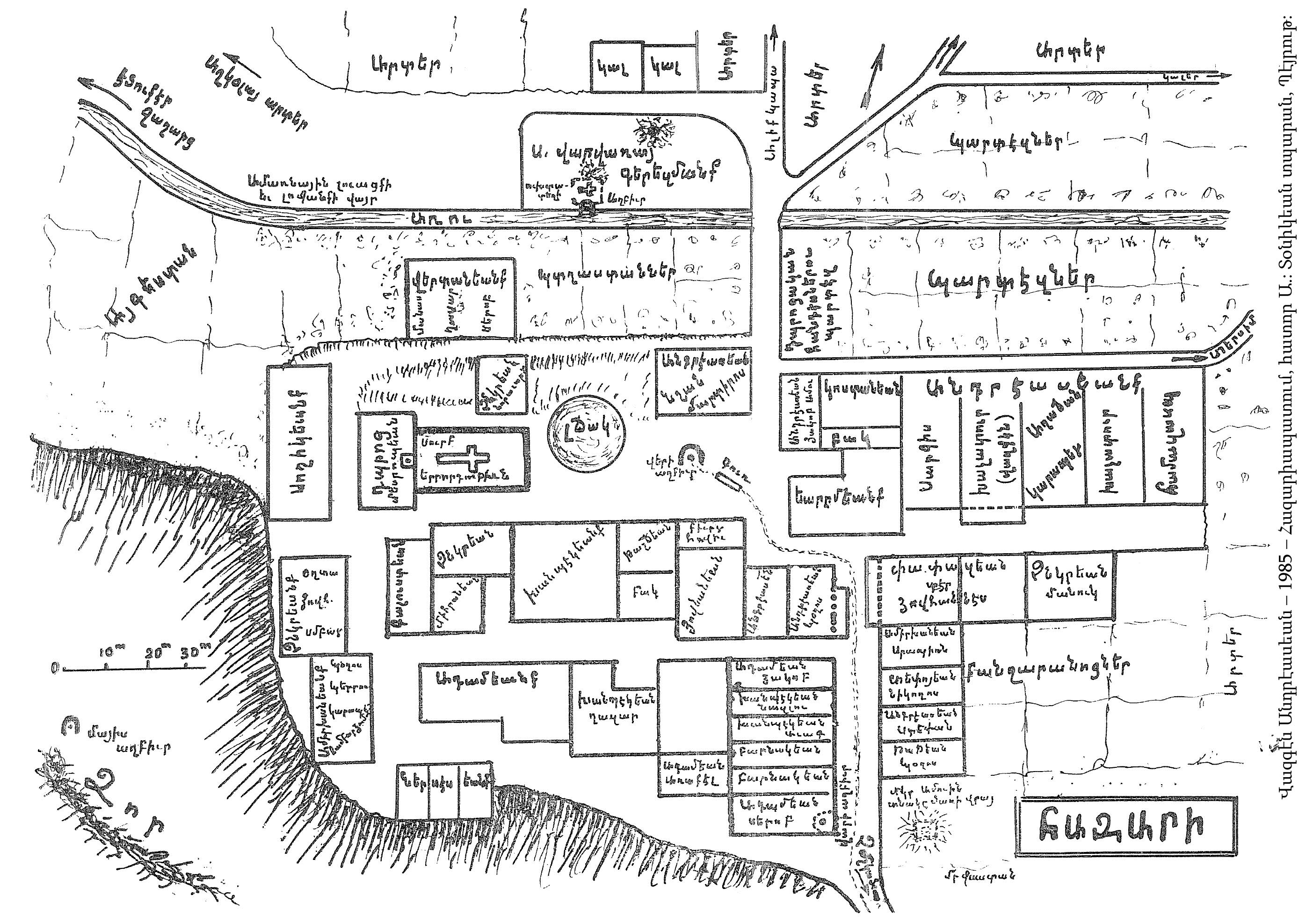 Map of the Armenian village of Hazari, located near the town of Tchmchgadzak (now Cemisgezek), drawn by Vazken Andréassian (1903-1995)